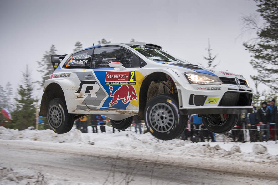 Rally Sweden 2014 Jari-Matti Latvala,Mikka Anttila,Motorsport,Rally,Rally Sweden,Rallye,Rallye Schweden,Shakedown,VW Polo R WRC,Volkswagen Motorsport,Volkswagen Polo R WRC